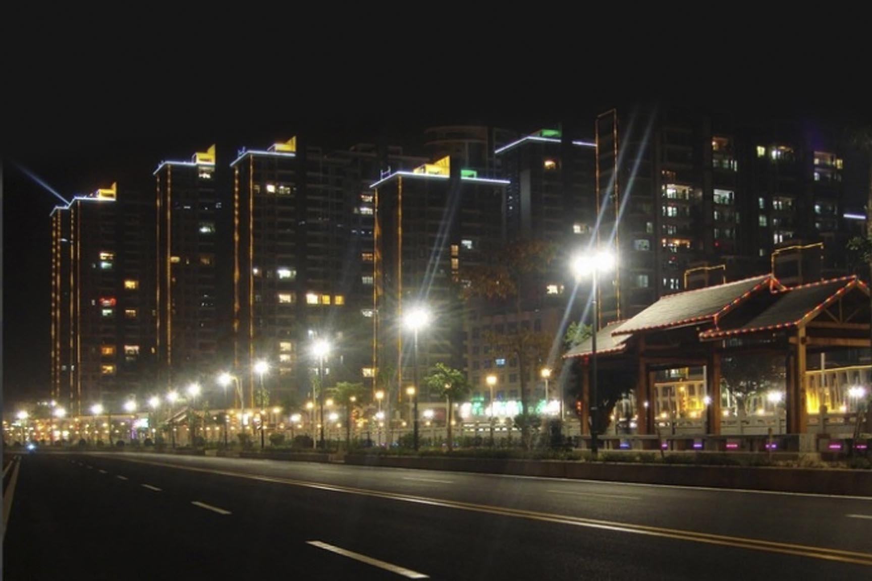 A shot of night view of Urban of Puning City